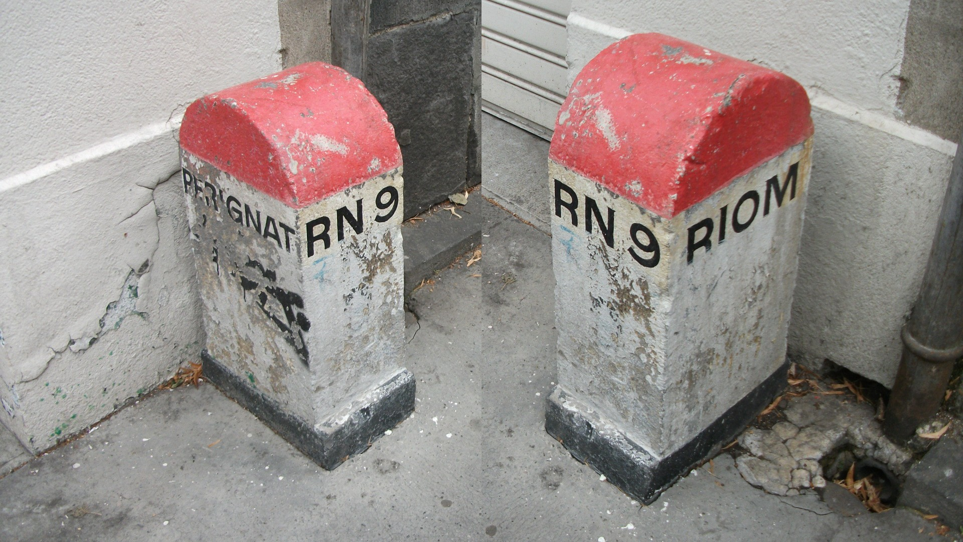 Milestone of route nationale 9 (two faces)—retouched with GIMP—found in Clermont-Ferrand, Gergovia Boulevard.